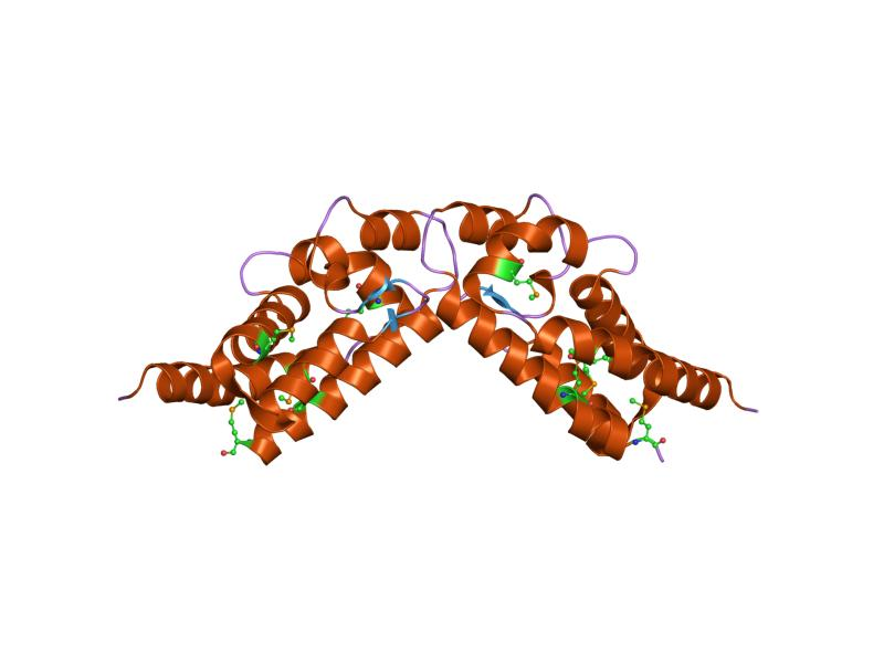 Cartoon representation of the molecular structure of protein registered with 1hy5 code.